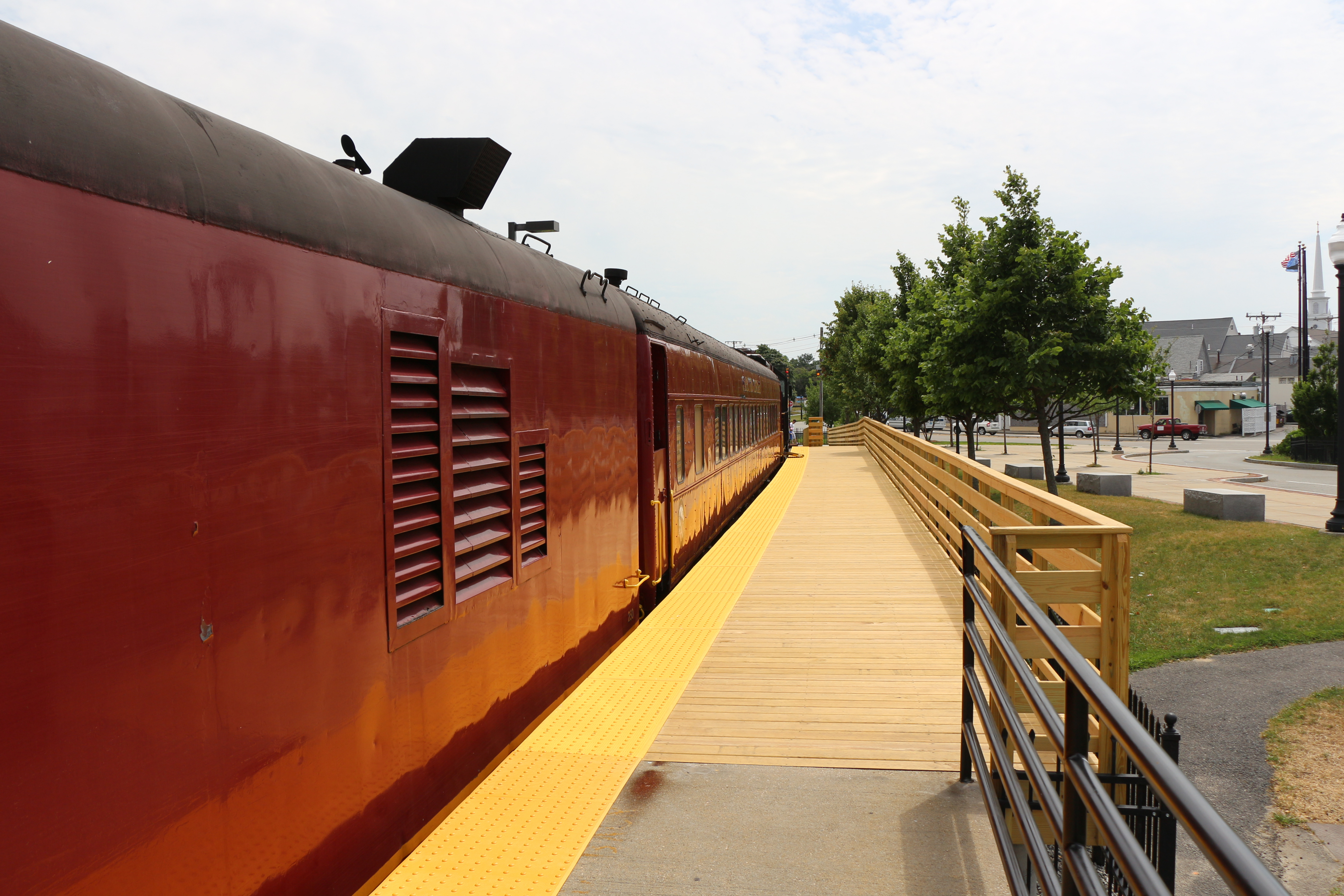 The extended platform at the Hyannis Transportation Center.